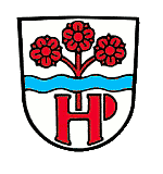 Coat of Arms of Himmelstadt